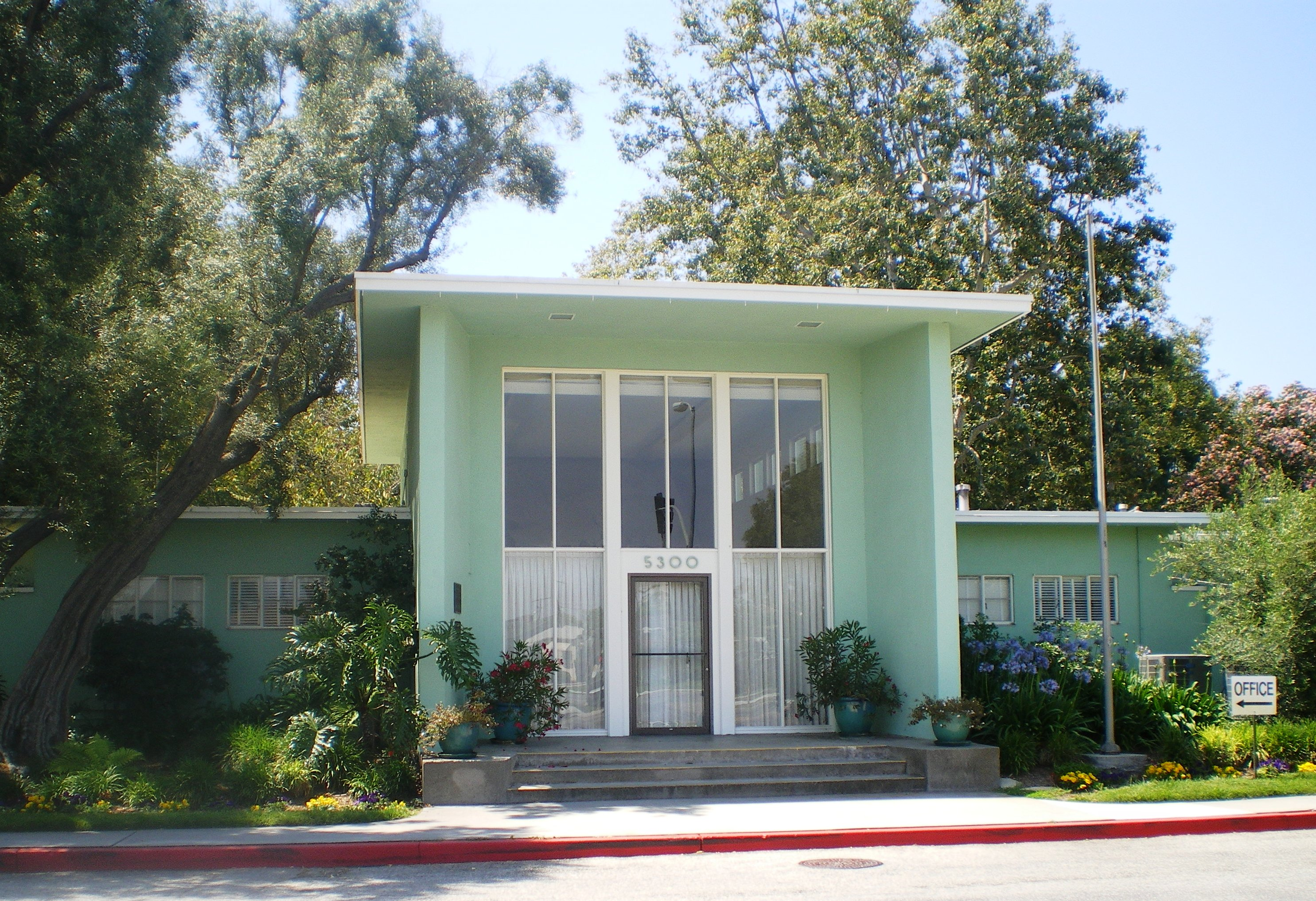 Baldwin Hills Village, Office Building, 5300 Village Green, Baldwin Hills, Los Angeles, California